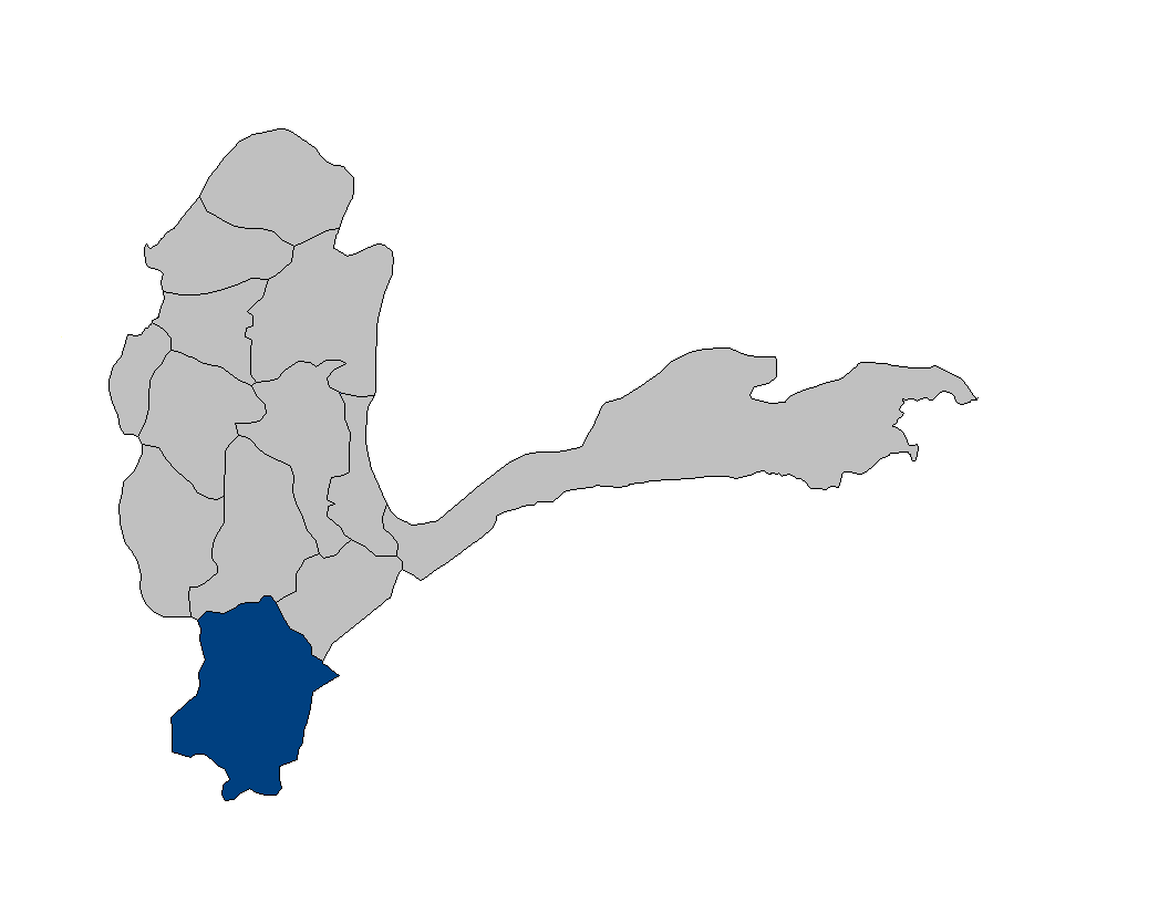 Location map for the Kuran Wa Munjan District of Badakhshan Province, Afghanistan. Original map source: Image:Badakhshan districts.png